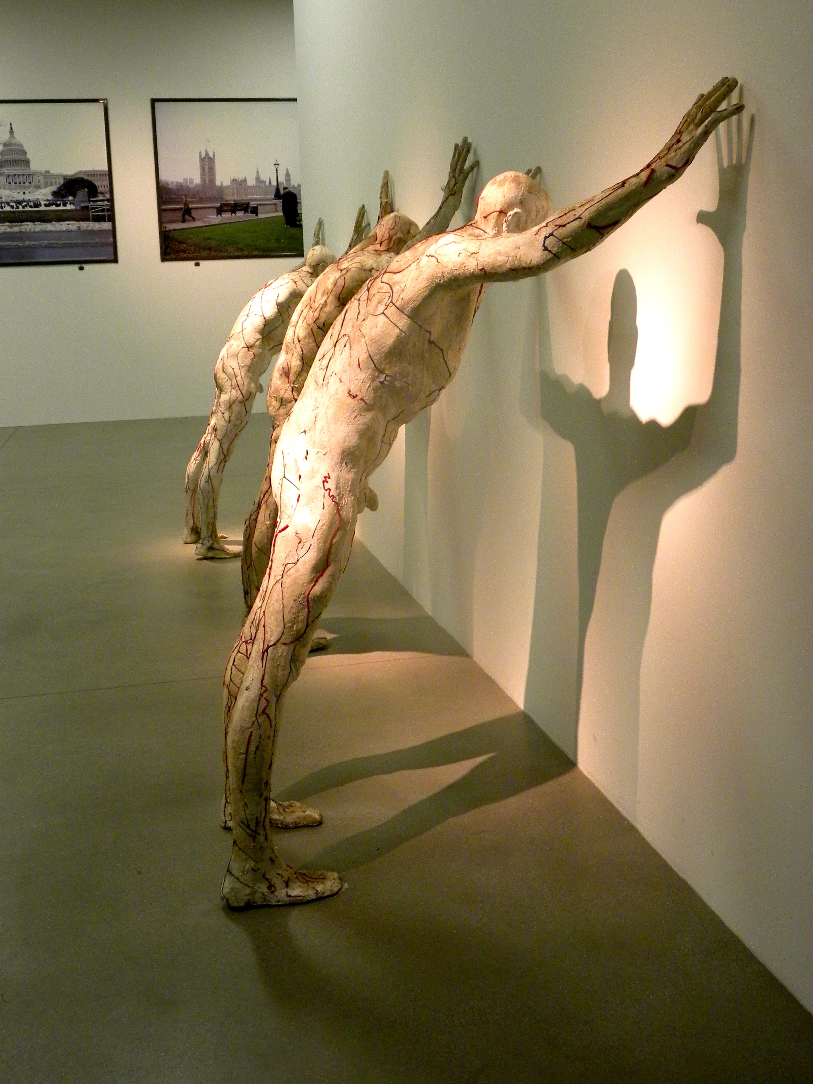 Statues in the Zagreb Museum of Contemporary Art.